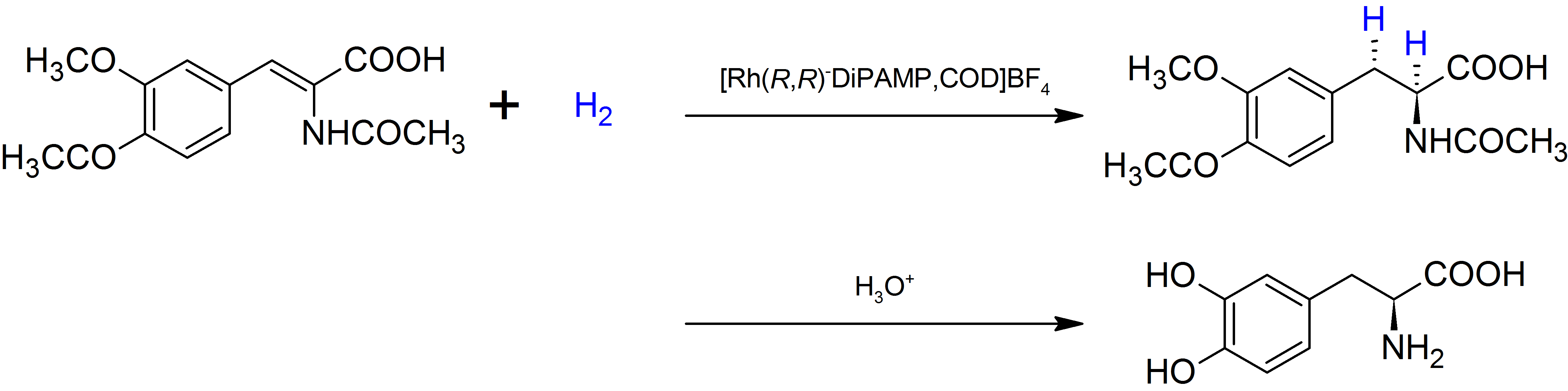 Author: Dave Bernier Source: Original drawing for Wikipedia, adapted from V8rik's